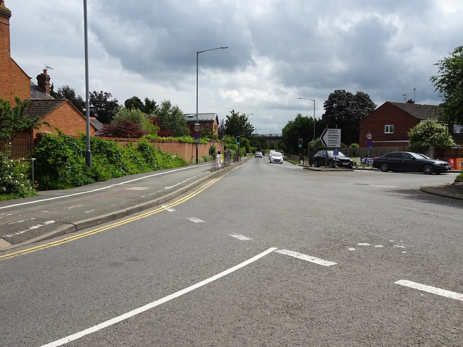 Evesham Road Crossing Halte railway station (site),Opened in 1904 by the Great Western Railway, on what became the line from Cheltenham to Stratford-upon-Avon, this station, with its unusual spelling, closed in 1916. View south from the former level crossing towards the later Stratford-upon-Avon Racecourse platform, and Cheltenham. The railway line was taken up in the late 1970s and a road was built through the old station site.